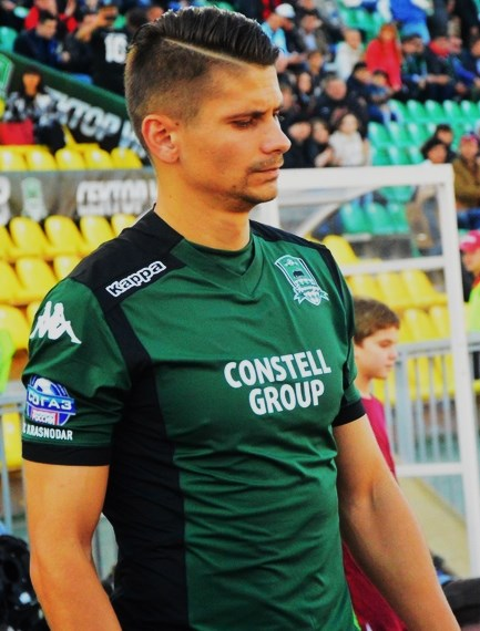 Alyaksandr Martynovich